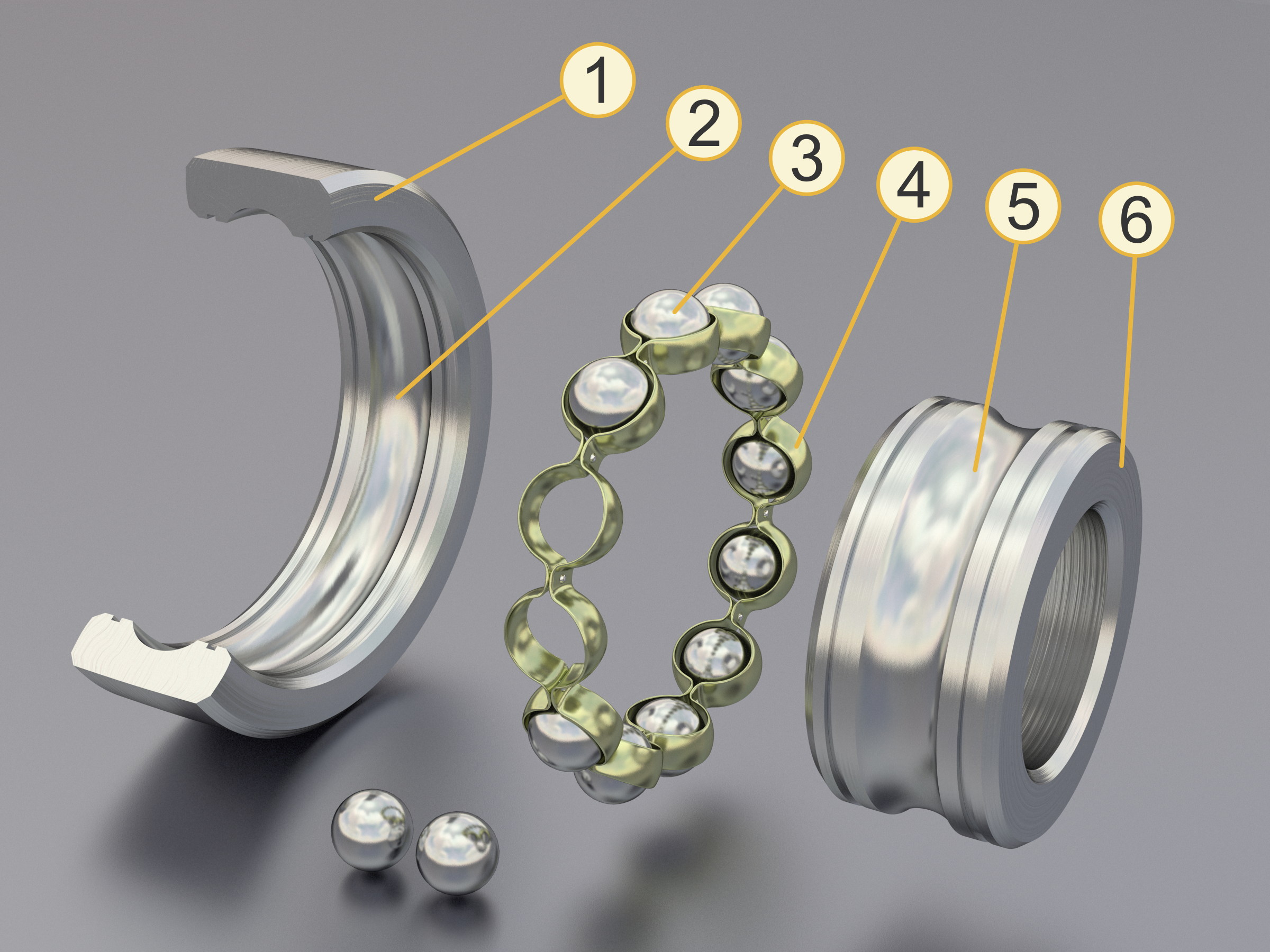 Seperated view of a rolling-element bearing. outer ring ball race ball cage ball race inner ring